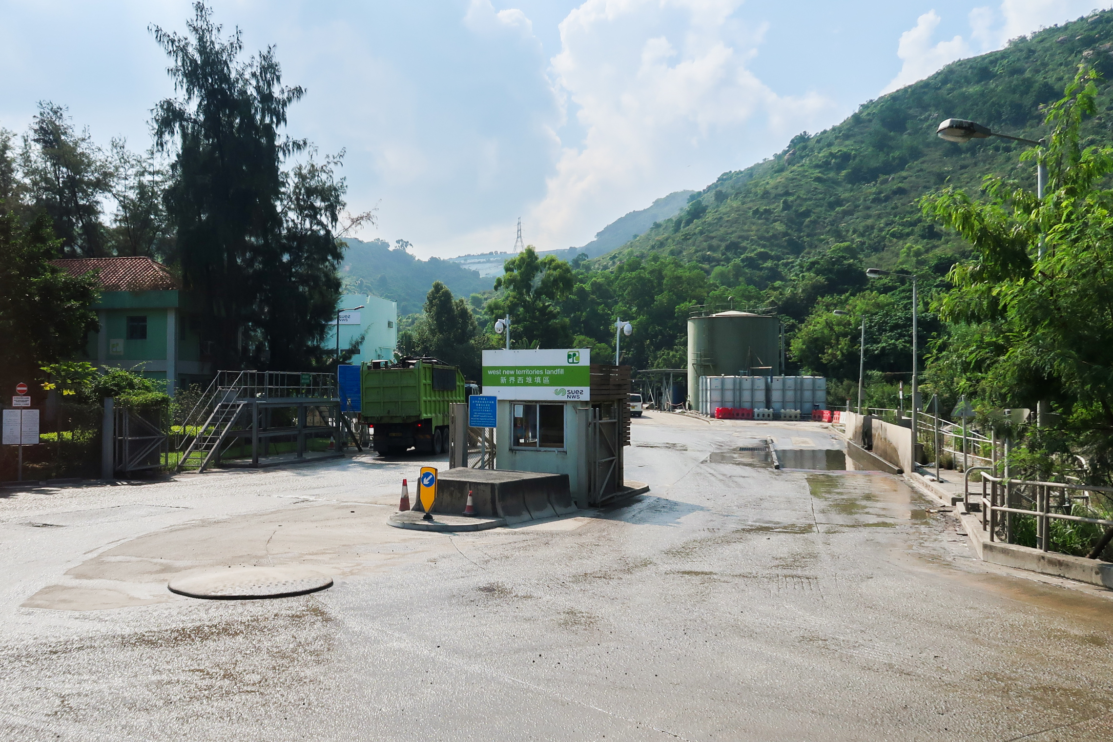 West New Territories Landfill Entrance